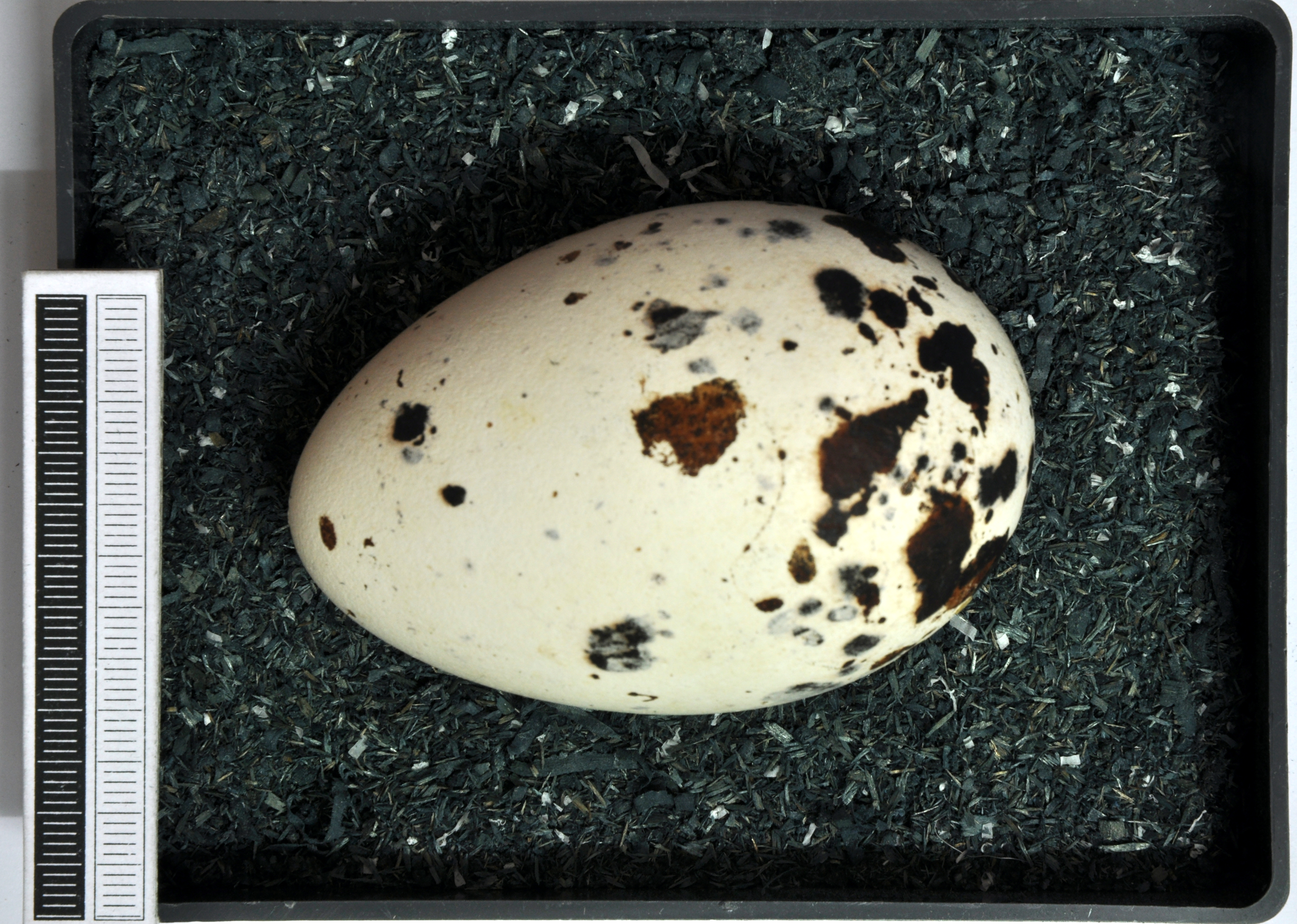 Razorbill Alca torda, egg, Coll. Museum Wiesbaden, Origin: Vaase, Finland, 14.06.1974, leg. W. Abelmann